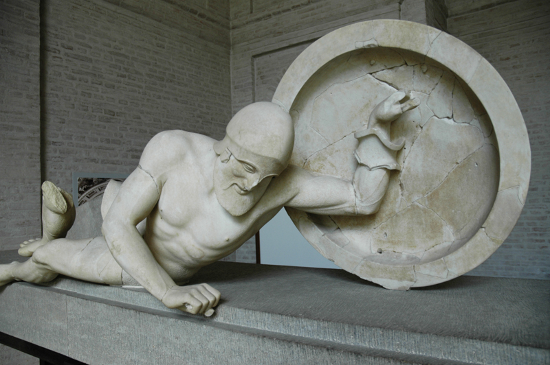 So-called “Dying warrior” (fallen Trojan warrior, probably Laomedon), figure E-XI of the east pediment of the Temple of Aphaia, ca. 505–500 BC.